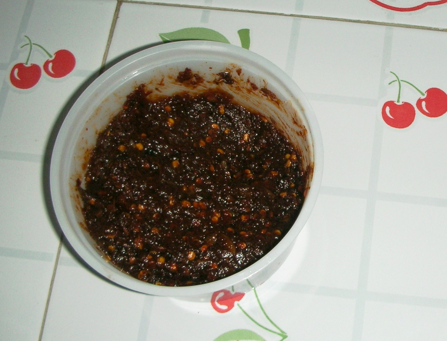 Nam phrik maengda made with crushed Lethocerus indicus water bug and other ingredients.